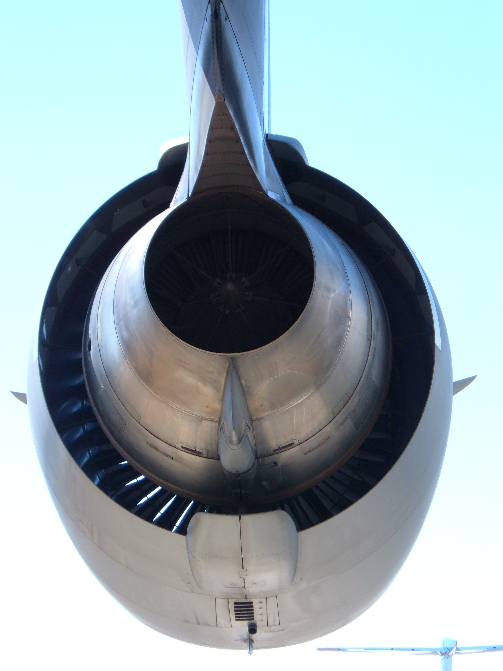 Rear of a C-17 farthest port side engine at the Wings over Wine Country 2007 air show at the Charles M. Schulz - Sonoma County Airport in Sonoma County, California.